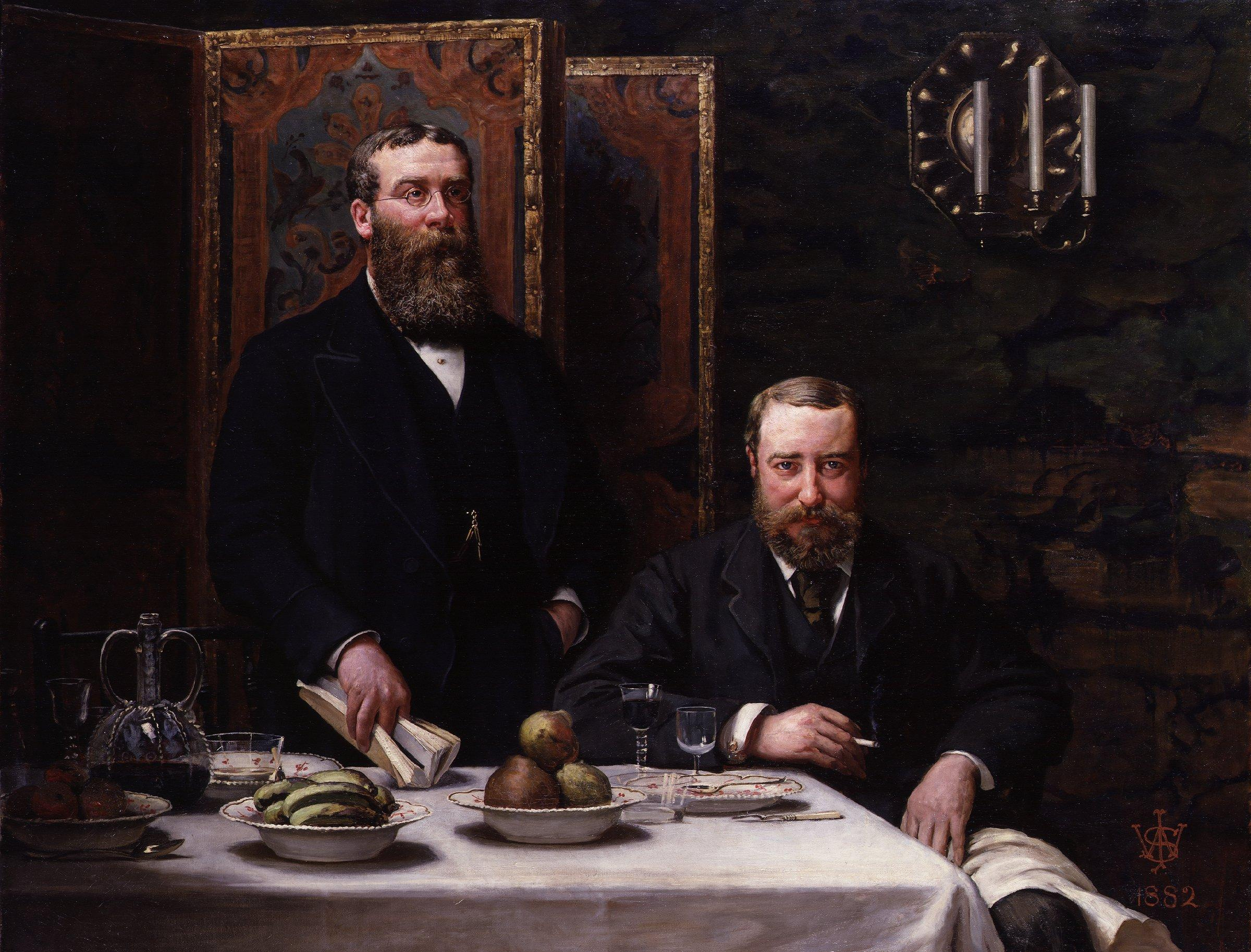 Sir Walter Besant; James Rice, by Archibald James Stuart Wortley (died 1905), given to the National Portrait Gallery, London in 1929. All images in this batch have been confirmed as author died before 1939 according to the official death date listed by the NPG.